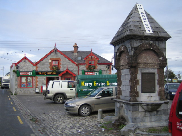 Ardfert The Irish name for Ardfert is Ard Fhearta and "fert" is an old Irish word often referring to pre-christian burials. The small tower contained a fountain that used to be the town's water supply and the plaque on the side reads: 1901 The ARDFERT water-supply was provided by Lieut Colonel Talbot-Crosbie and this fountain erected to his memory and for the public good by his brother LINDSEY TALBOT-CROSBIE of Ardfert Abbey